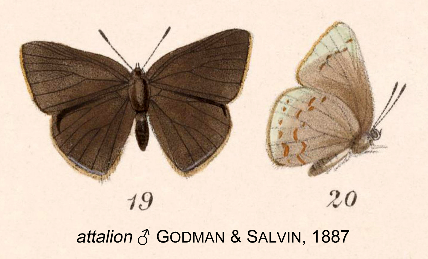 Thecla attalion, ♂, from Godman & Salvin, 1887.